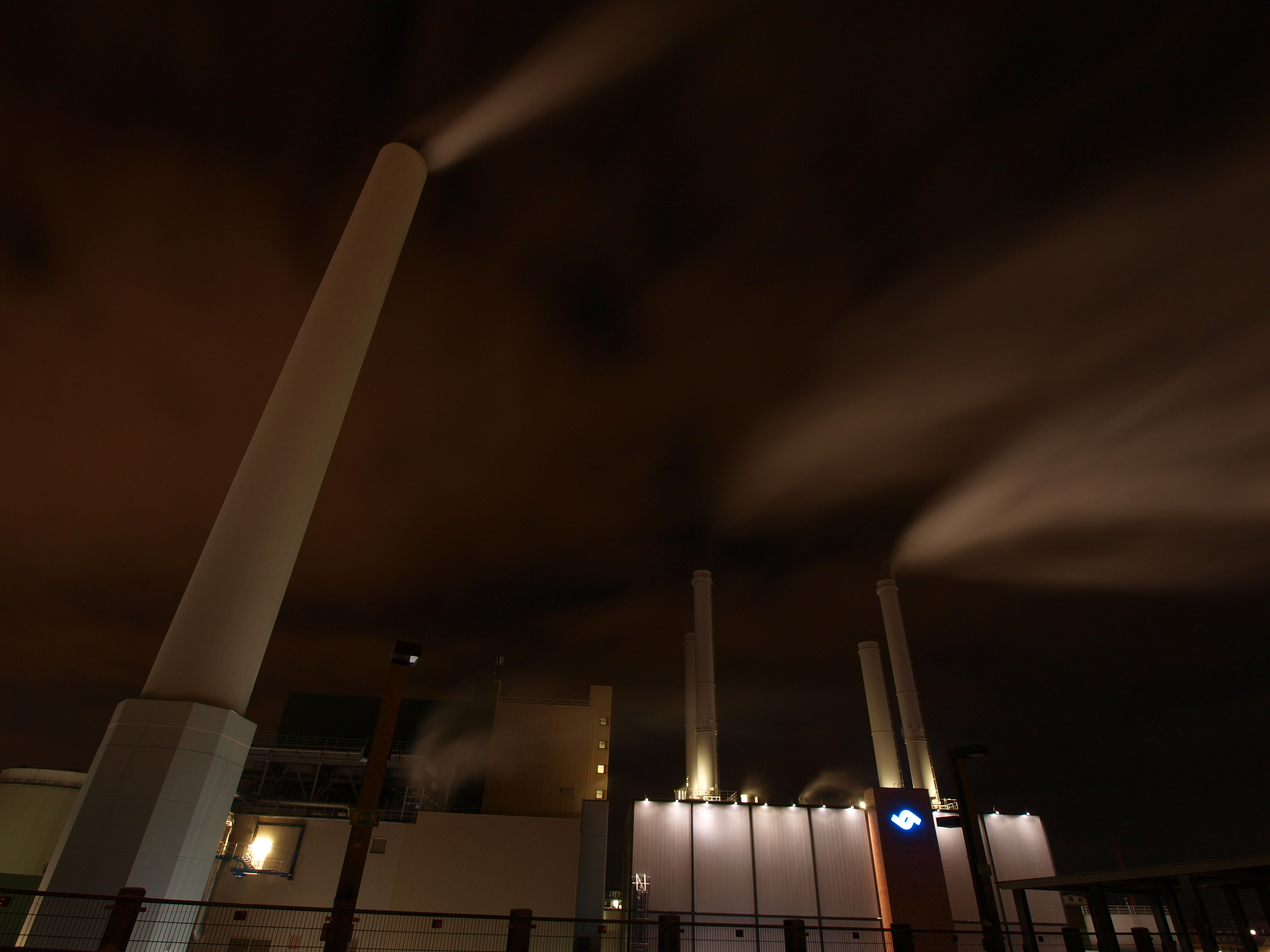 GuD power plant (gas and steam turbine) of Stadtwerke Münster